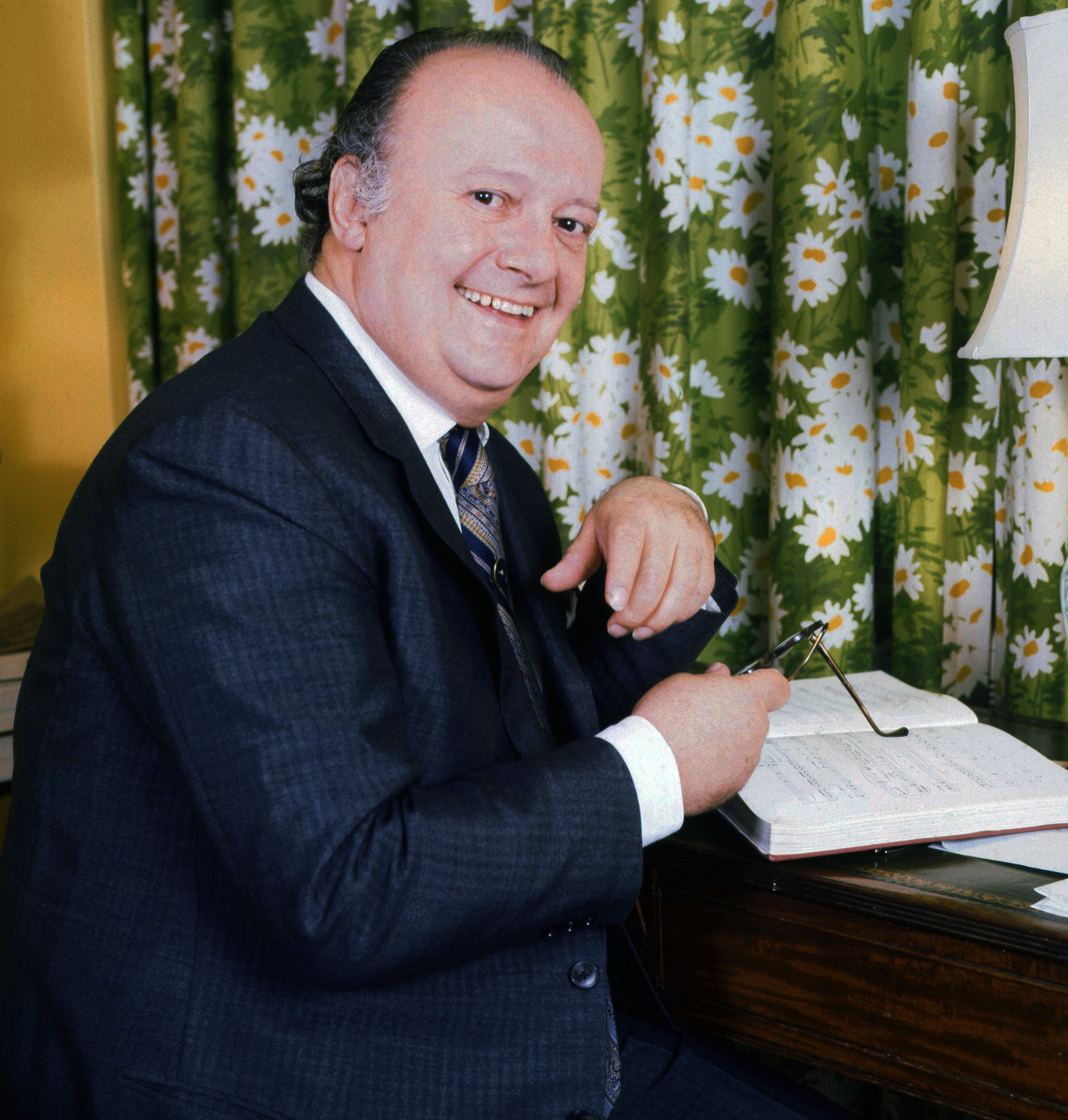 Tito Gobbi at his hotel in London